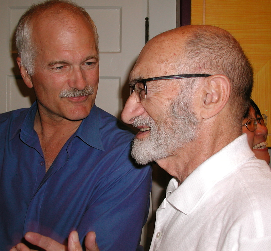 Jack Layton left, and Henry Morgentaler right, en:22 August en:2005.